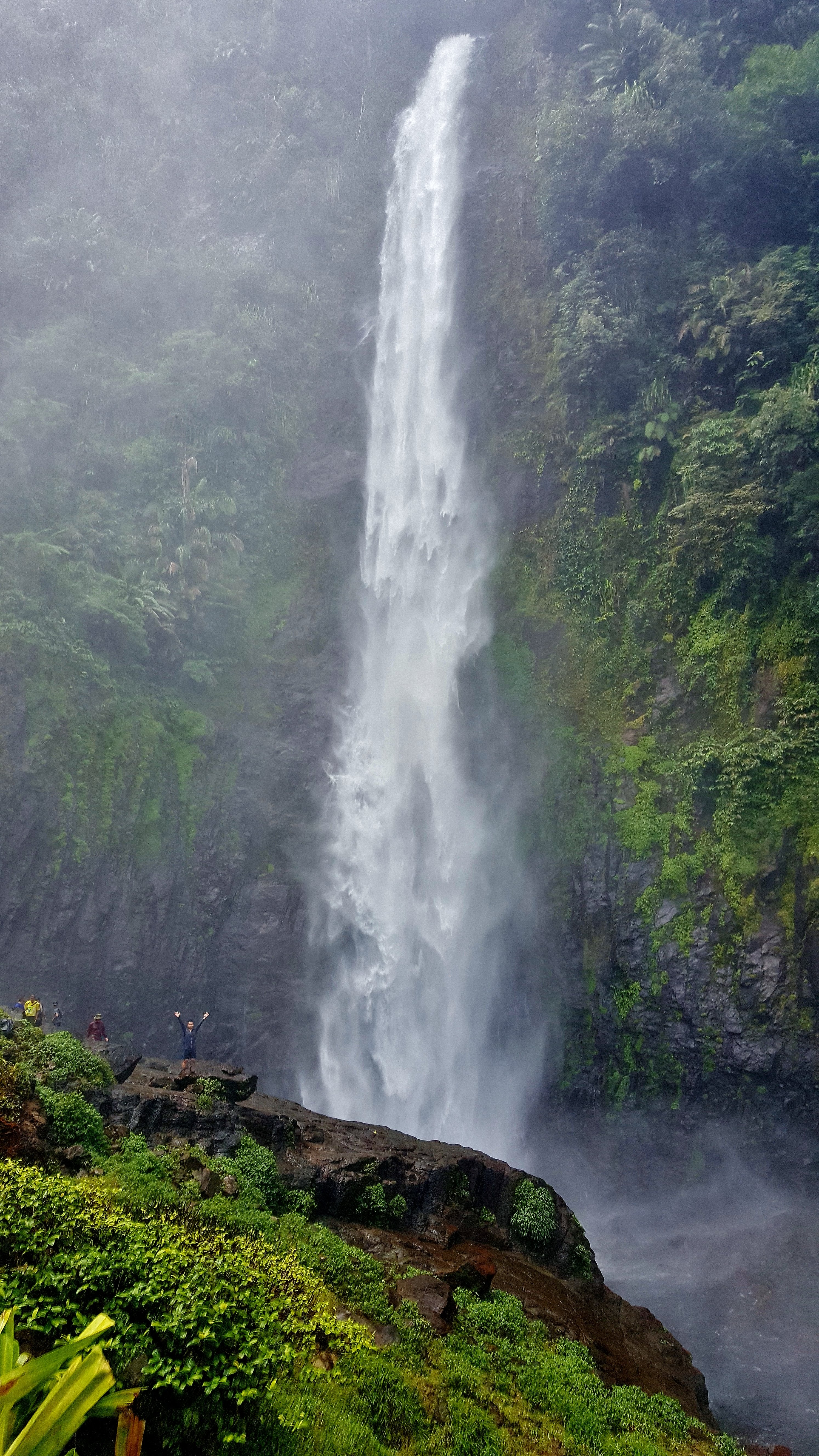 Julan waterfall 01